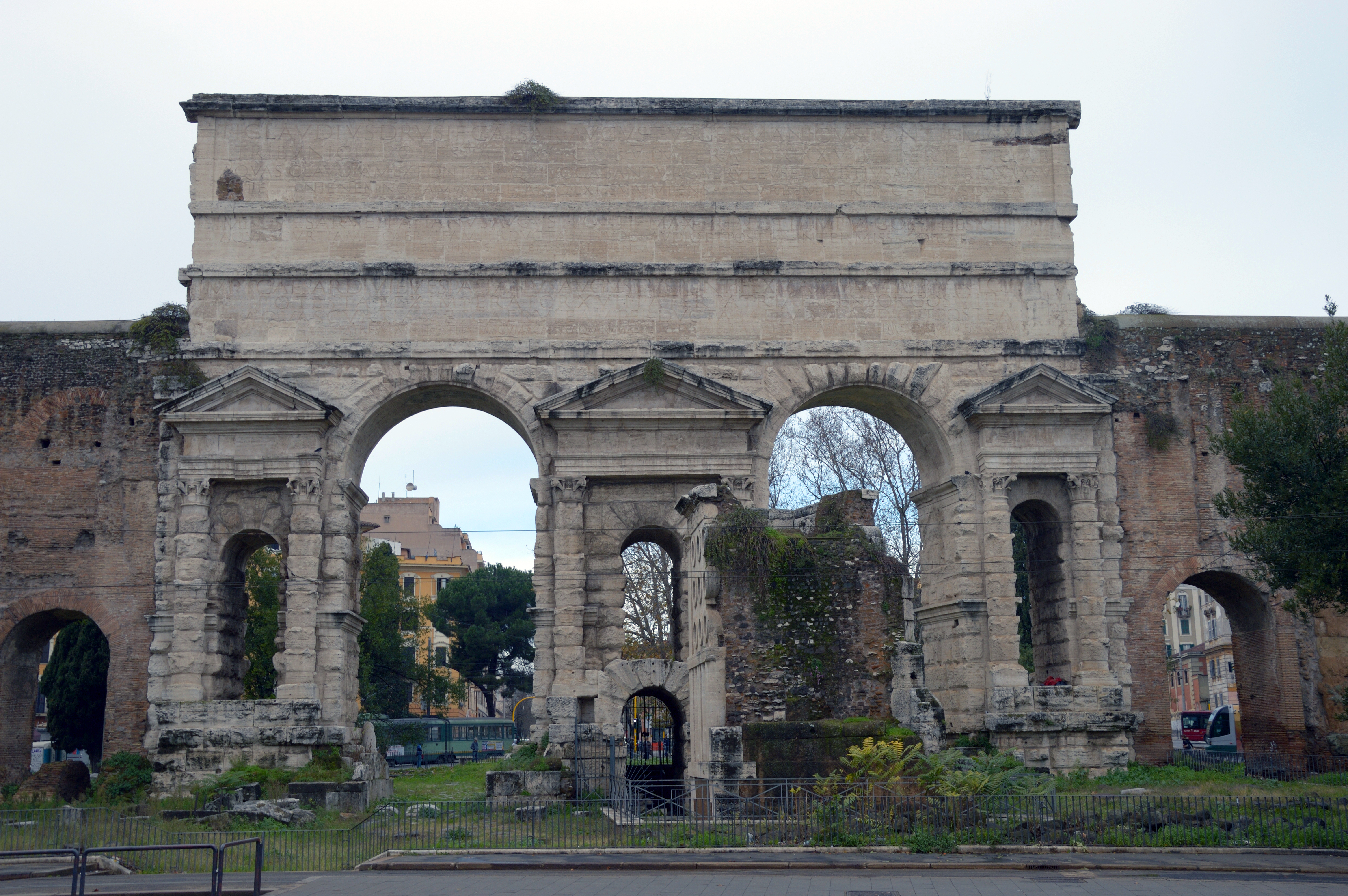 Porta Maggiore ("Larger Gate"), or Porta Prenestina